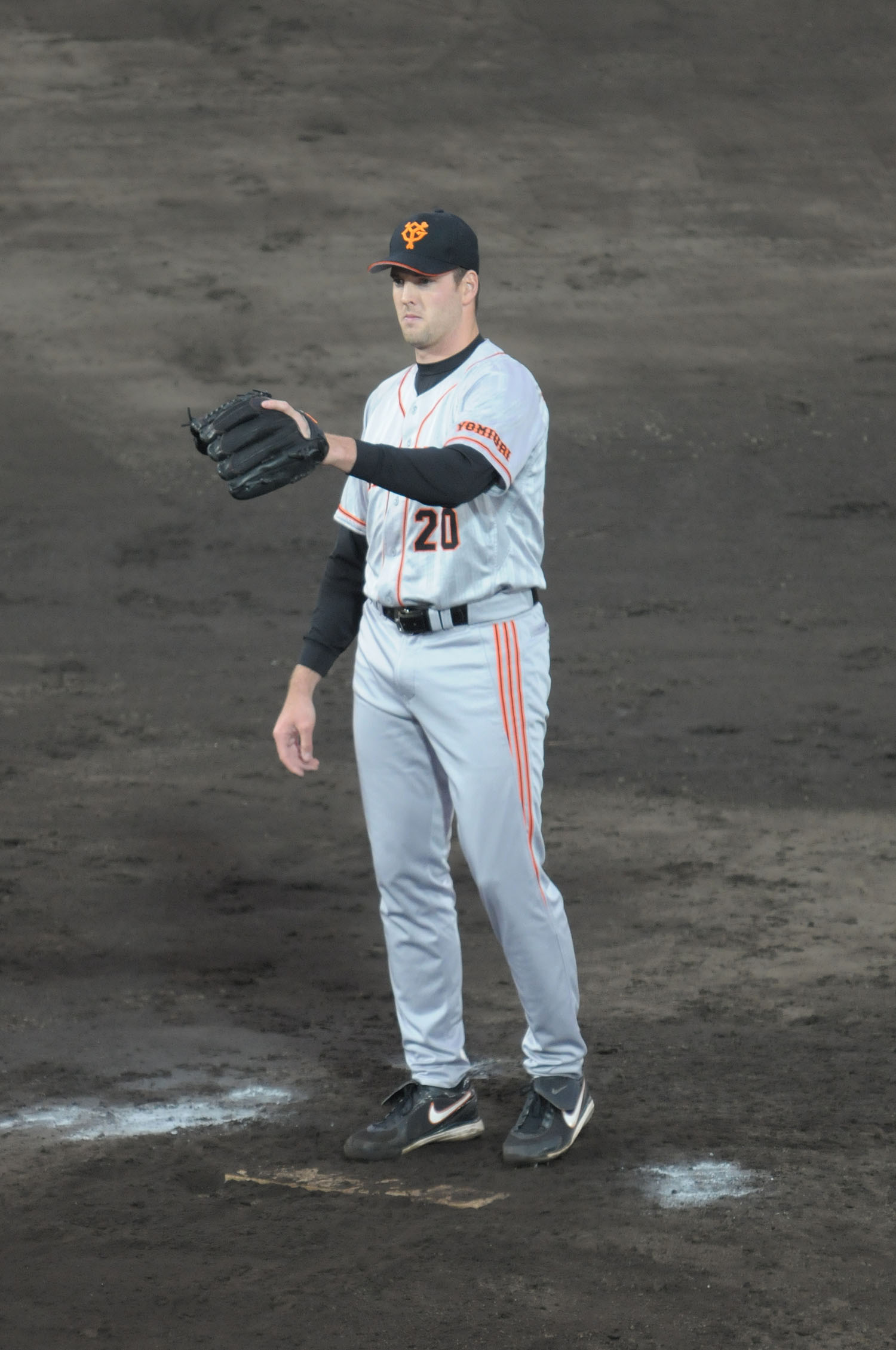 Scott Mathieson, pitcher of the Yomiuri Giants, at Akita Prefectural Baseball Stadium.